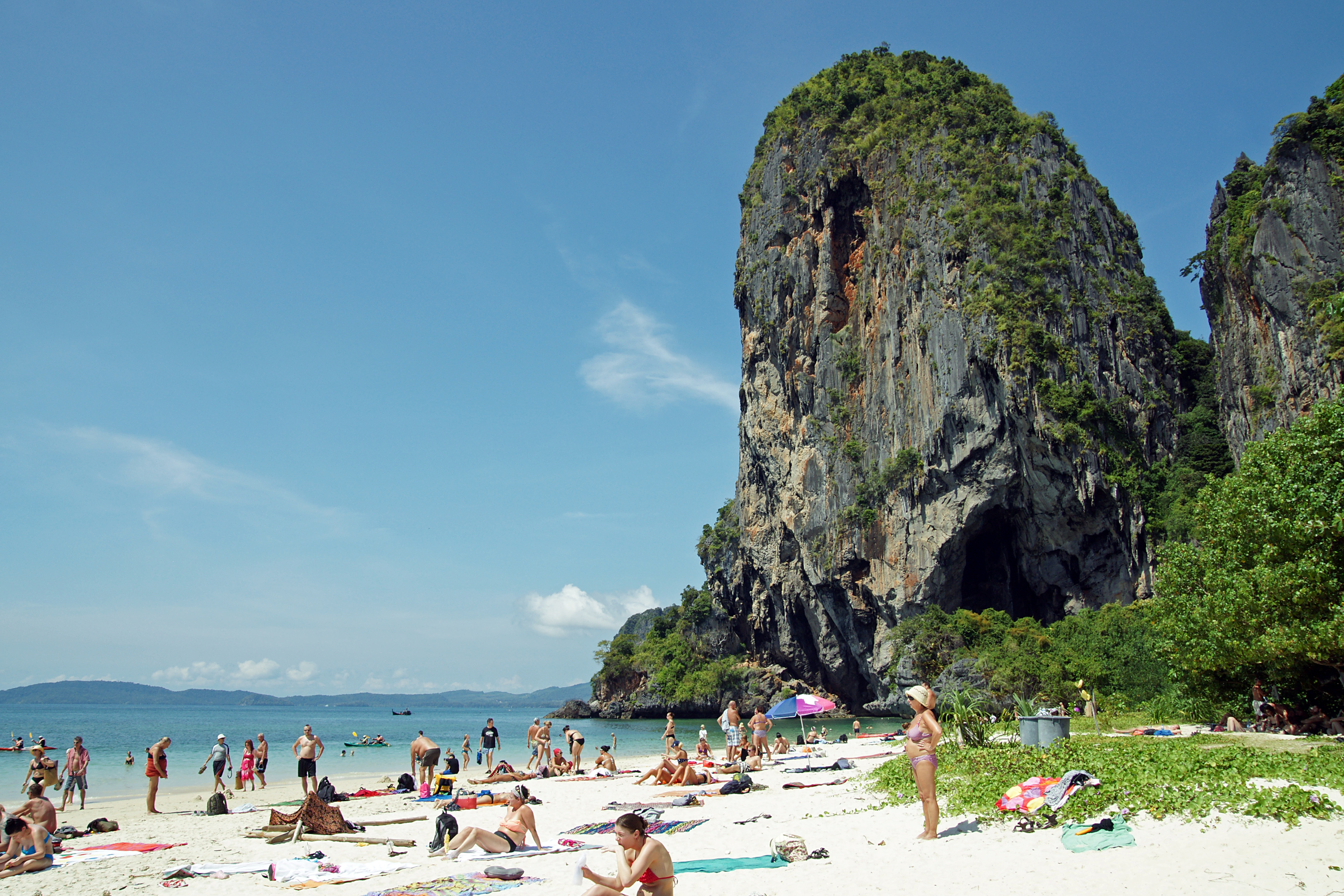 Phra Nang beach in Krabi, Thailand